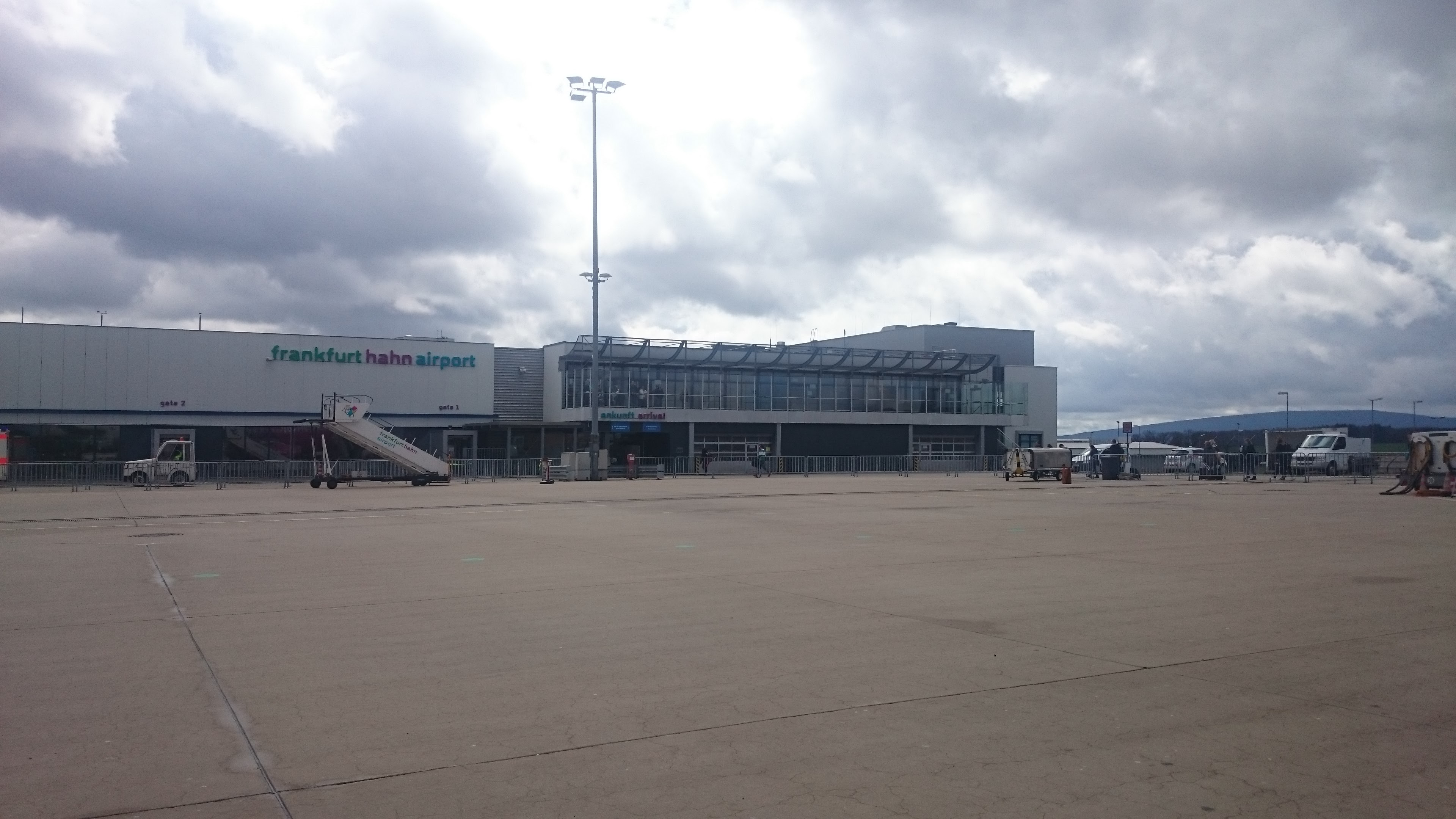 Frankfurt-Hahn Airport terminal